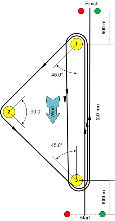 FD Course Map of the 1984 Olympic Games